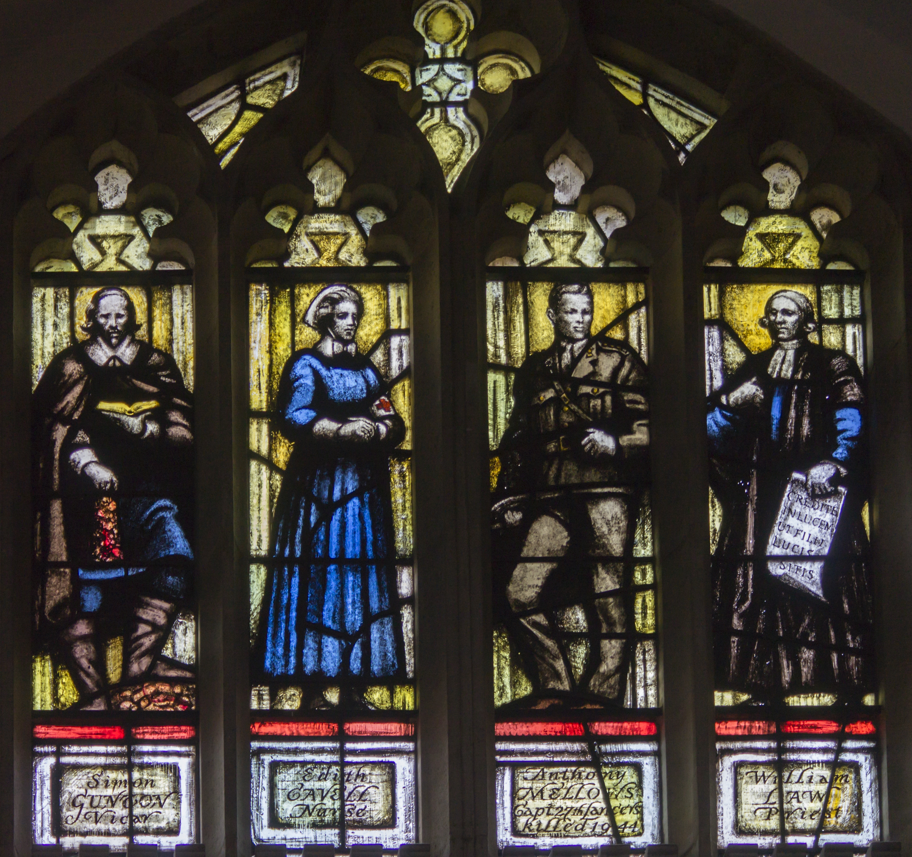 Designed by Brian Thomas in 1968, depicting figures connected with Peterborough - Symon Gunton (vicar during the plague between 1665-7) d.1676, Nurse Edith Cavell d. 1915, Captain Thomas Mellows (d. 1944 fighting in the French Resistance), and William Law d. 1761 Pic by Jenny.